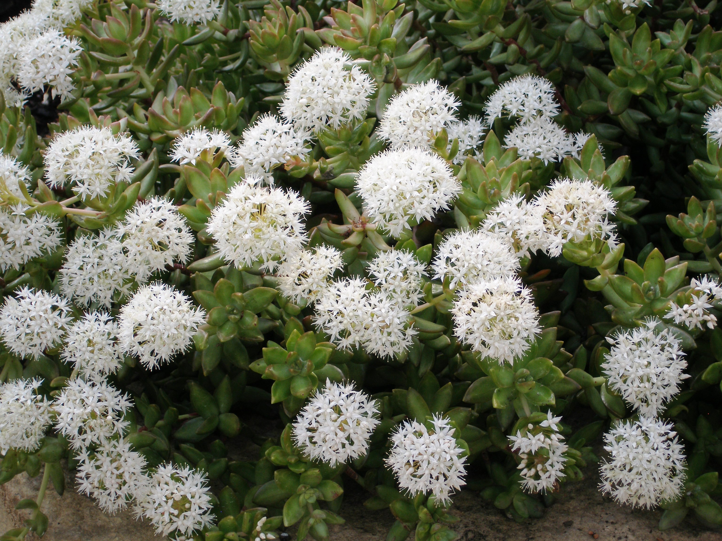 Specimen in cultivation at the Royal Botanic Gardens, Kew, United Kingdom.